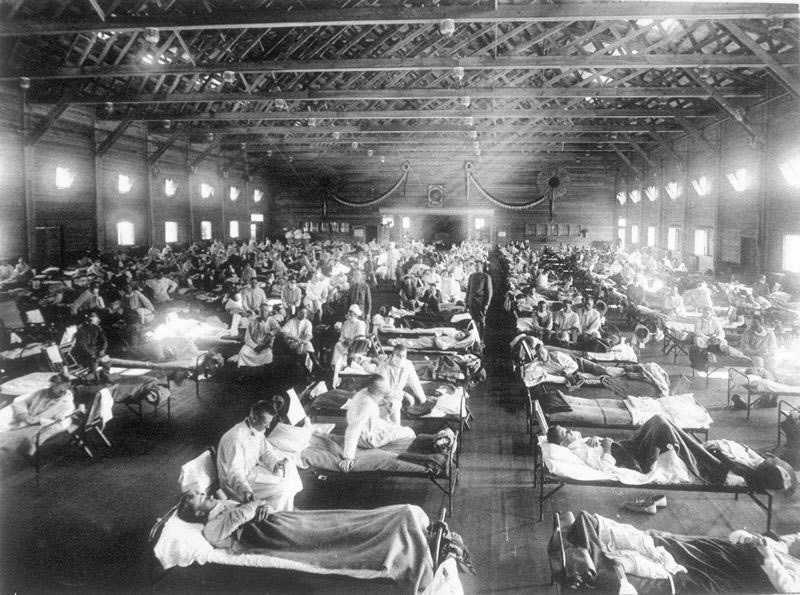 Historical photo of the 1918 Spanish influenza ward at Camp Funston, Kansas, showing the many patients ill with the flu (: Original source description)